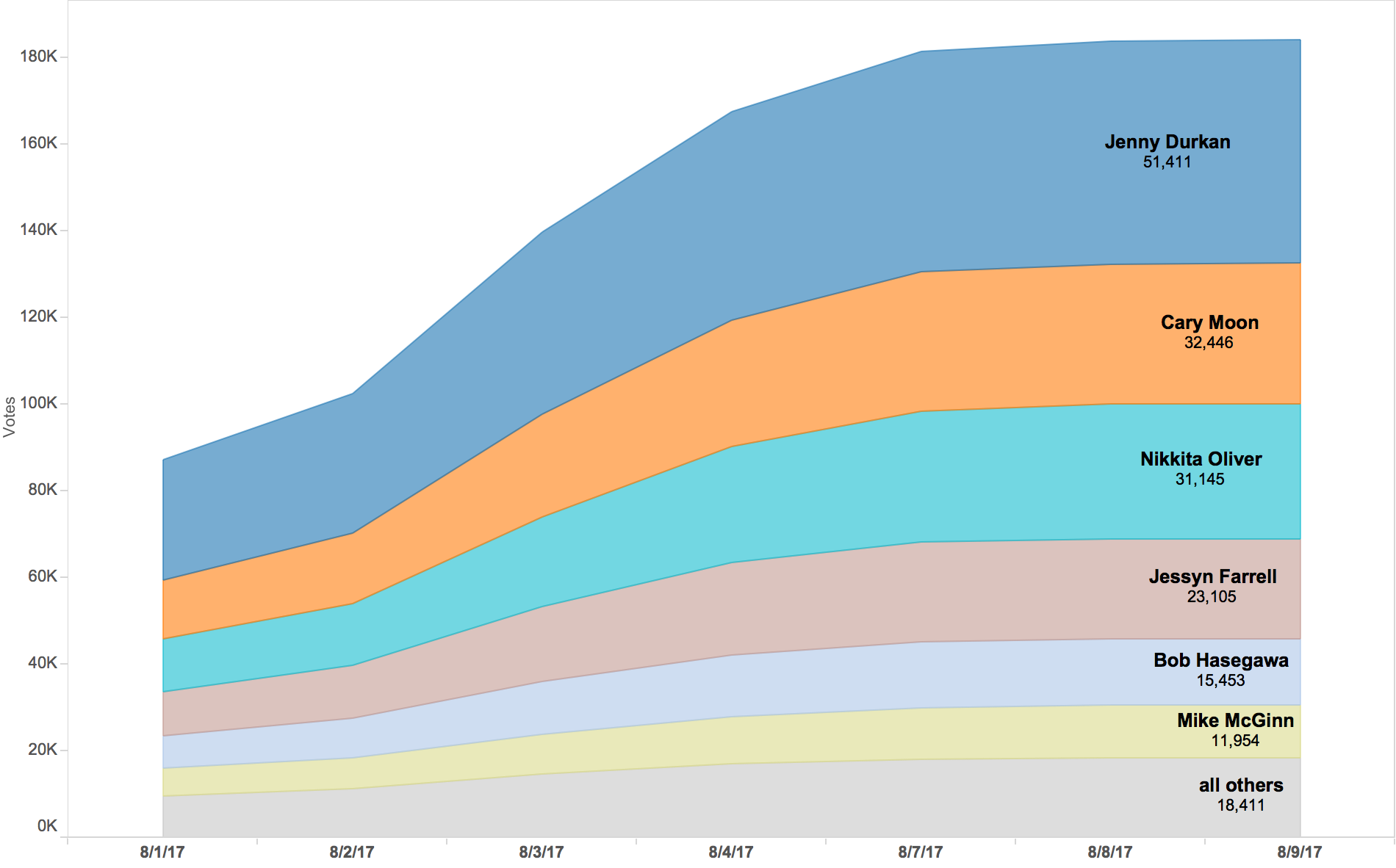 Area chart of cumulative votes for candidates in the Primary of the Seattle mayoral election, 2017, updated through August 9. Sources King County 2017 Results August primary election, CSV files: August 1 August 2 August 3 August 4 August 7 August 8 August 9 Release of vote counts for the primary are scheduled for August 15, 2017.